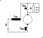 Electric motors